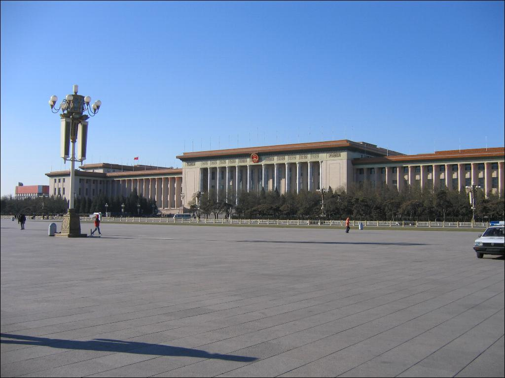 Great Hall of the People in Beijing